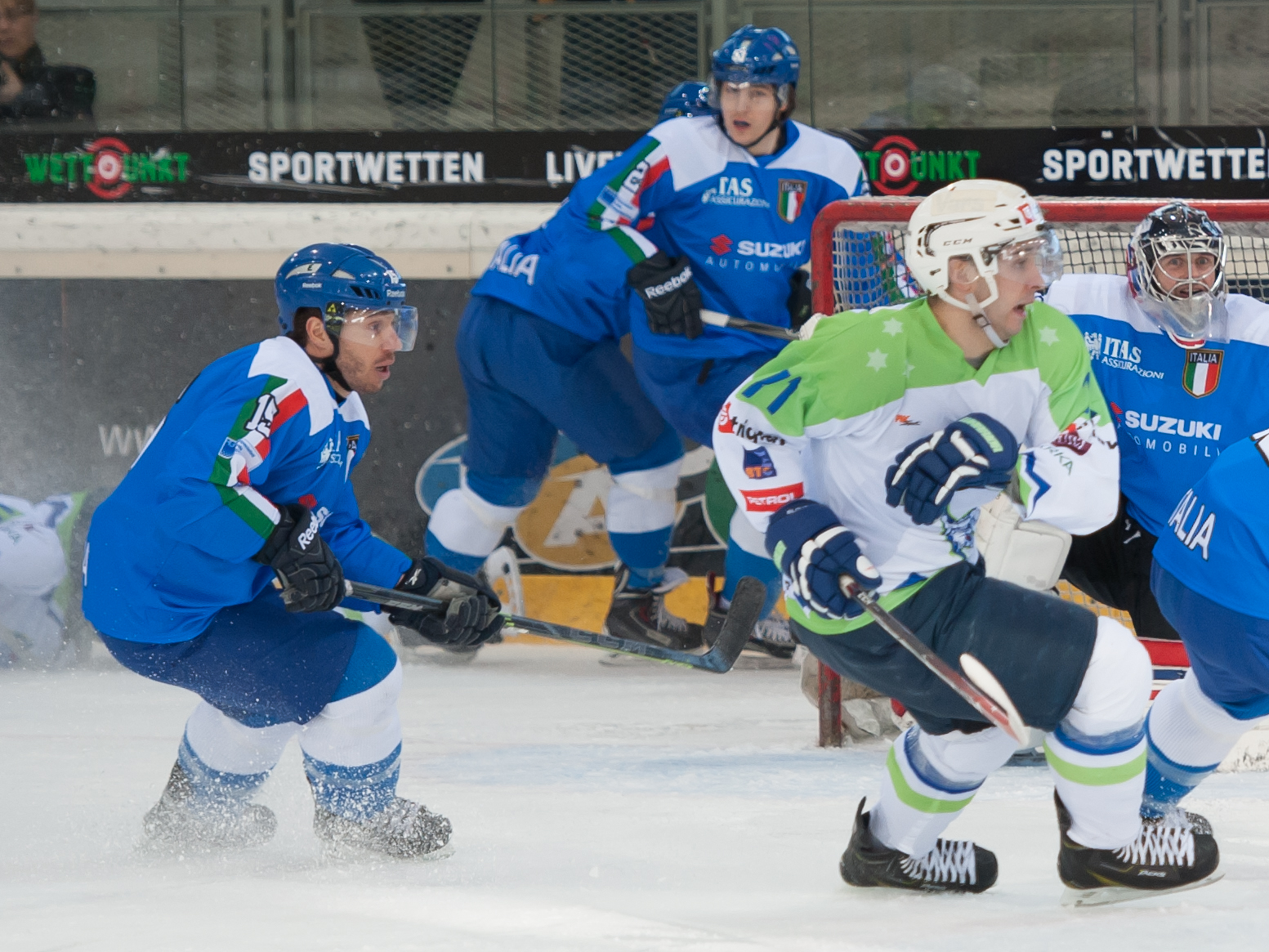 Euro Ice Hockey Challenge Vienna, February 7, 2015, Italy vs. Slovenia